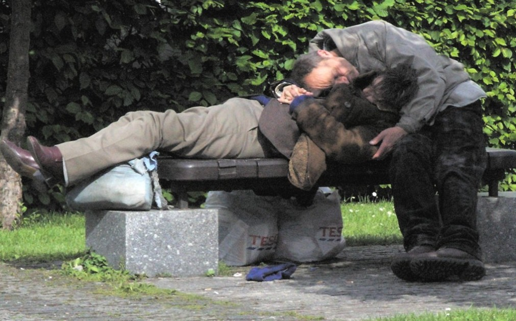 Displaced persons